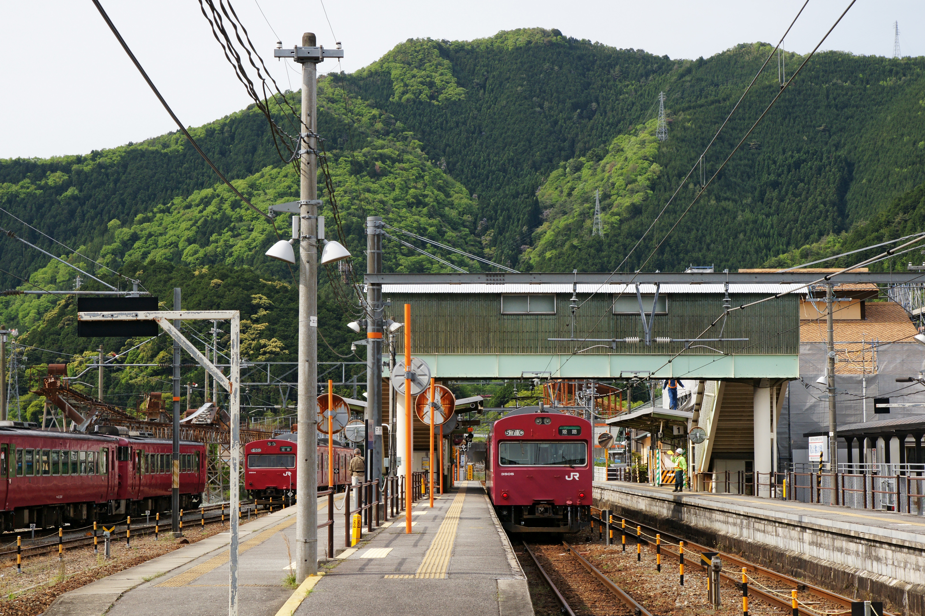 Teramae Station in Kamikawa, Hyogo prefecture, Japan.